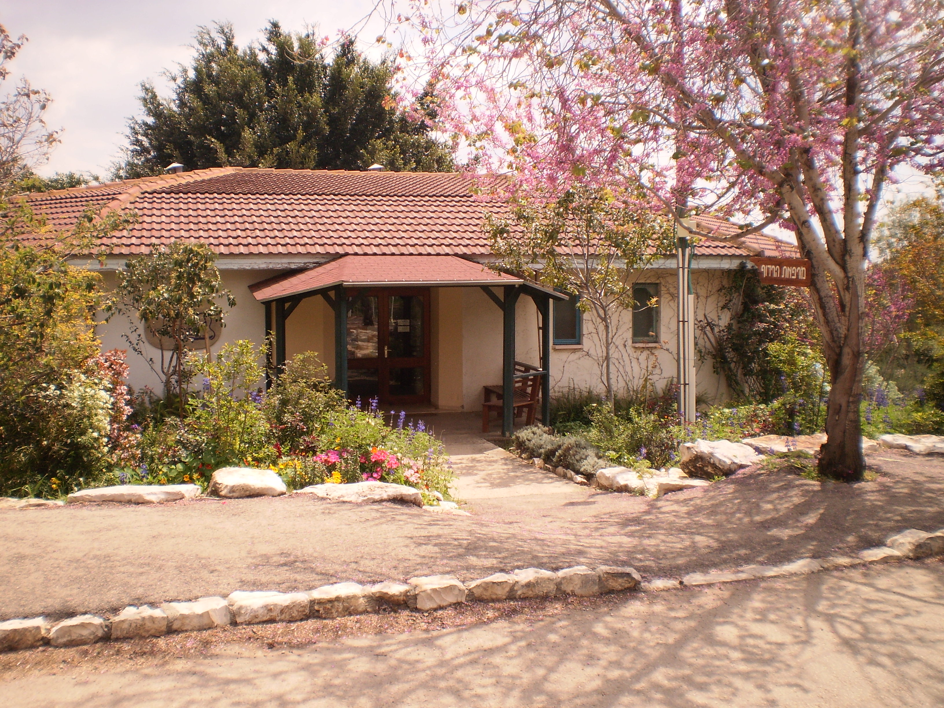 Harduf clinic מרפאת הרדוף